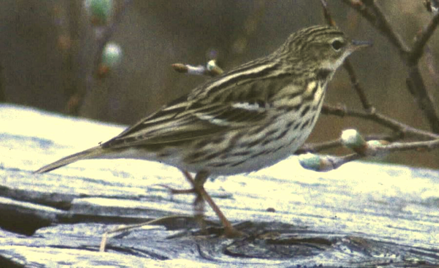 Pechora Pipit - taken on Attu Island, Aleutians, Alaska, 1993